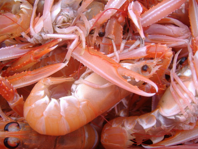 These are Norway Lobsters caught in Scotland and seen in Rothsay.